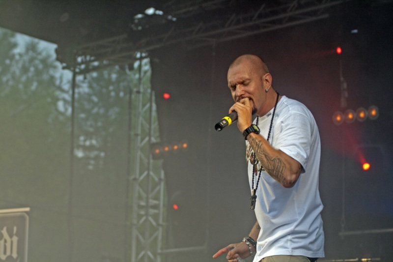 Finnish rap artist Brädi performing at Pipefest 2010 at Vuokatti, Sotkamo, Finland